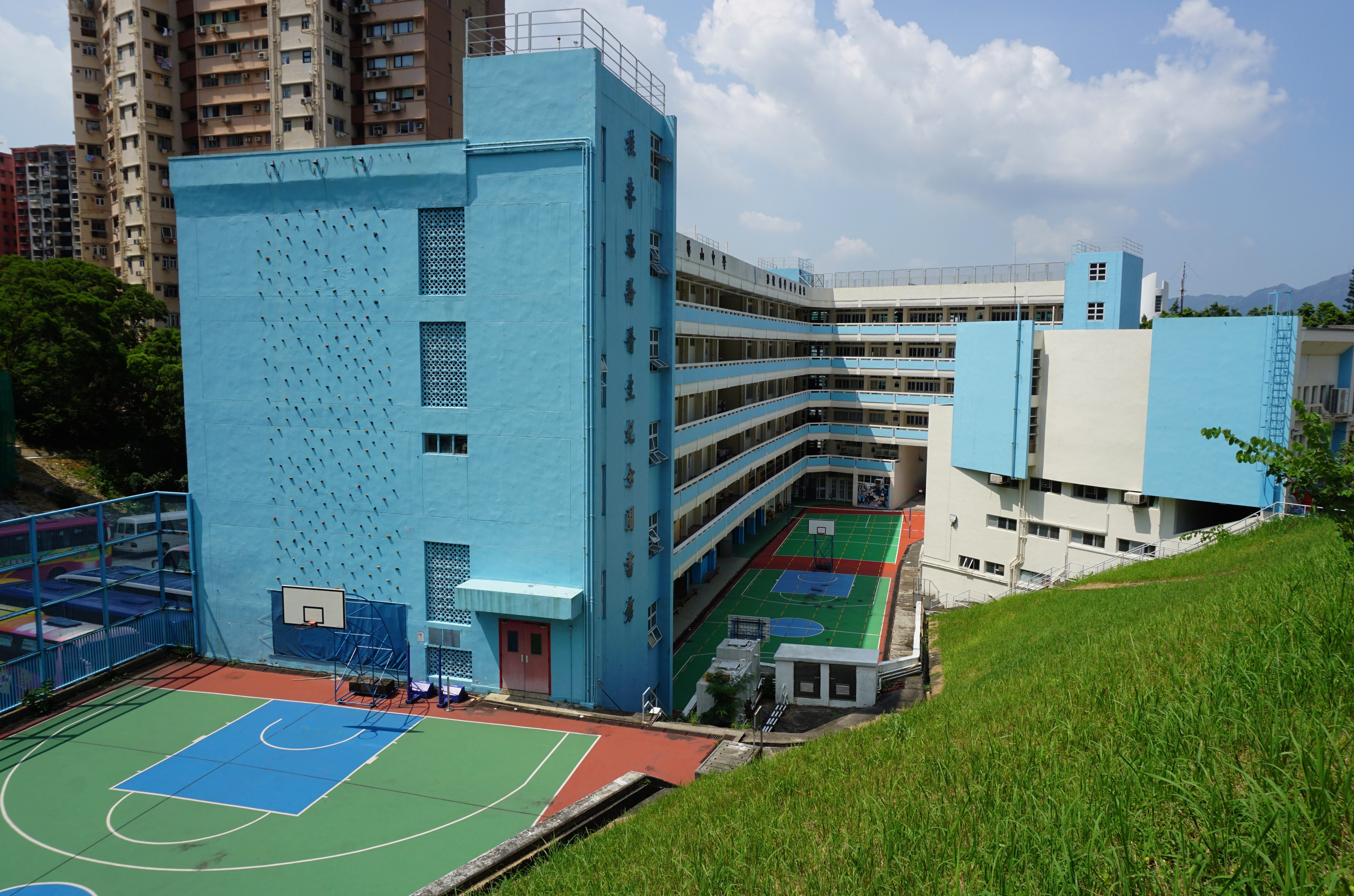 CCC Kwei Wah Shan College in Braemar Hill, Hong Kong.